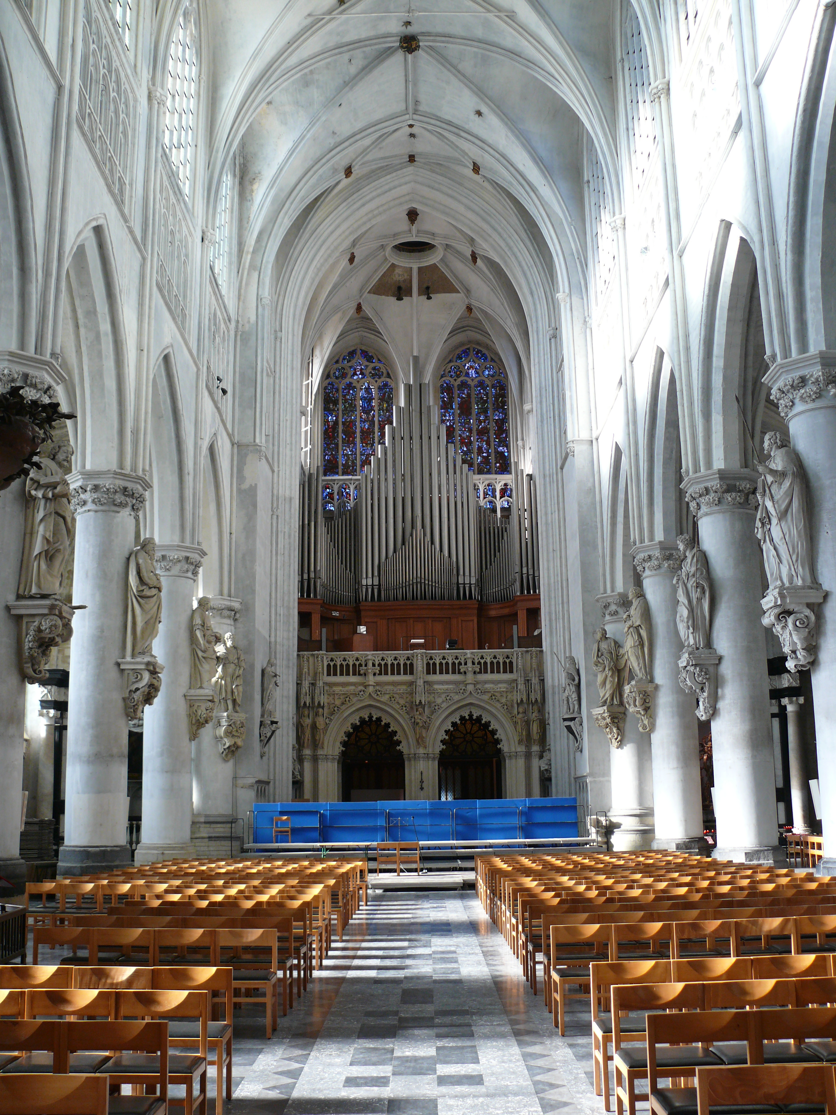 The rood screen under the tower of St-Rumbold's Cathedral in Mechelen (Belgium) is in Gothic Revival style. It was added in 1854 according to the plans of architect Leo Suys, to place the organ at the back of the church. The organ itself was built in 1958 after designs by the organist Flor Peeters. It consists of 6606 organ pipes. The statues along the sides in the aisle are tose of the apostles by Lucas Faydherbe.